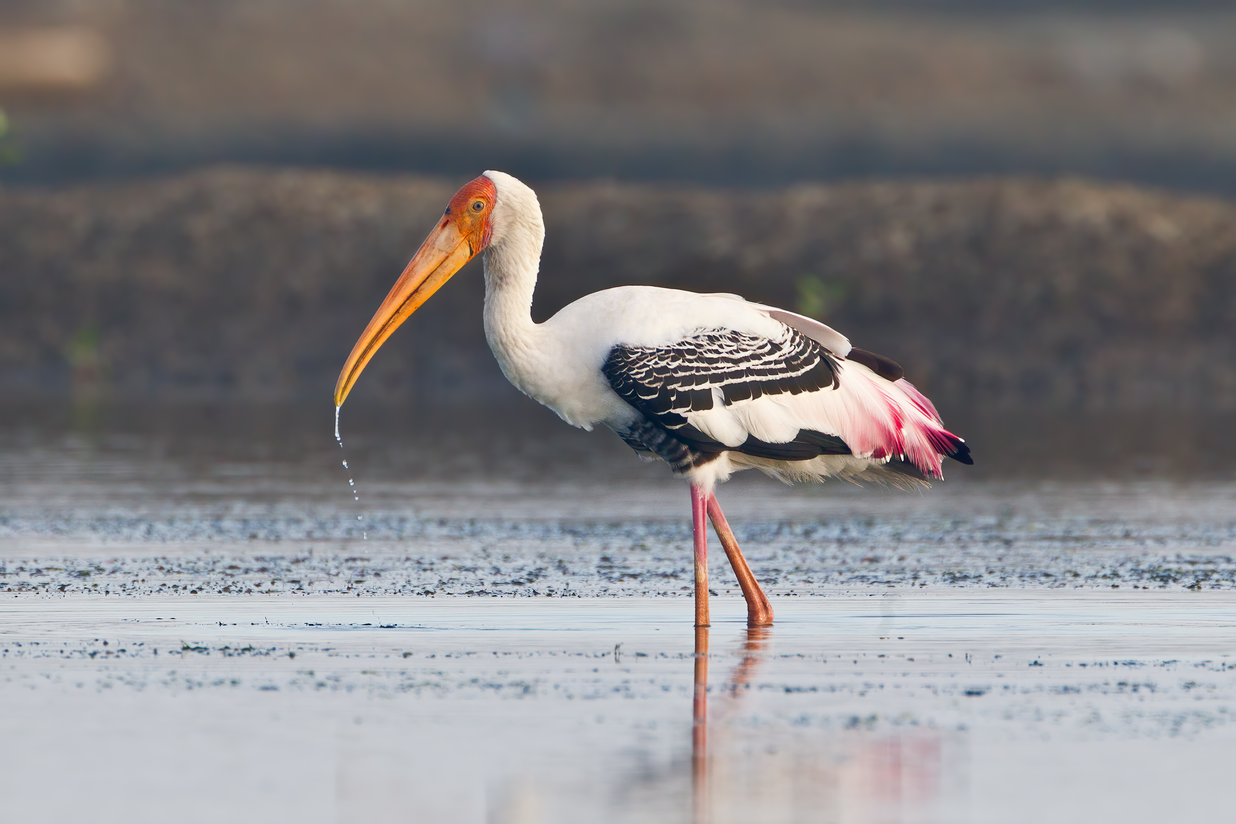 Painted Stork (Mycteria leucocephala), Pak Thale, Petchaburi, Thailand